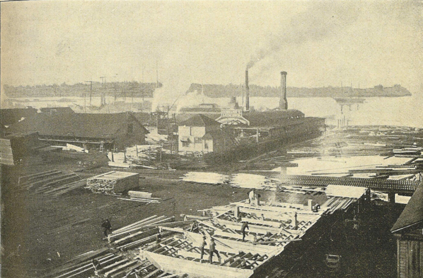 "Mill and Yard of the Stetson-Post Mill Company in Seattle" from brochure Seattle and the Orient (1900). The mill stood between South Weller Street and South King Street (according to Appendix M of the Draft Environmental Impact Statement for the Alaskan Way Viaduct rebuild, March 2004). West Seattle can be seen across Elliott Bay in the background of the photo; Harbor Island (which presumably would be visible at left in this view today) was not yet built.